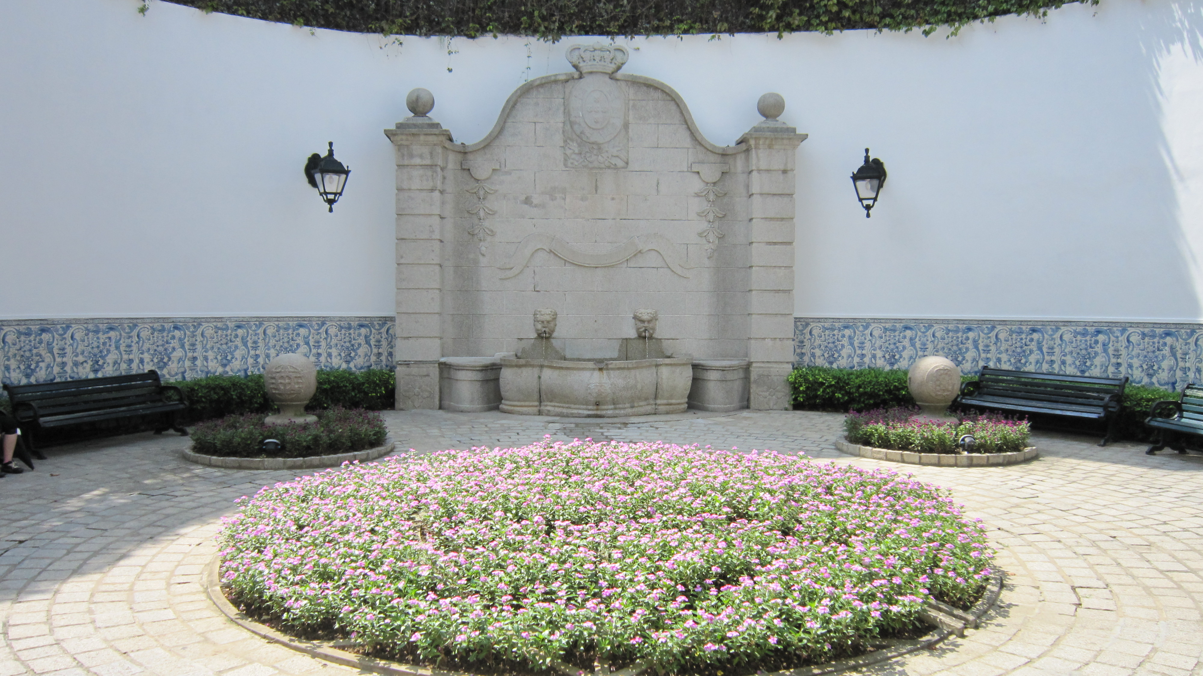 O Jardim do Edifício do Instituto para os Assuntos Cívicos e Municipais